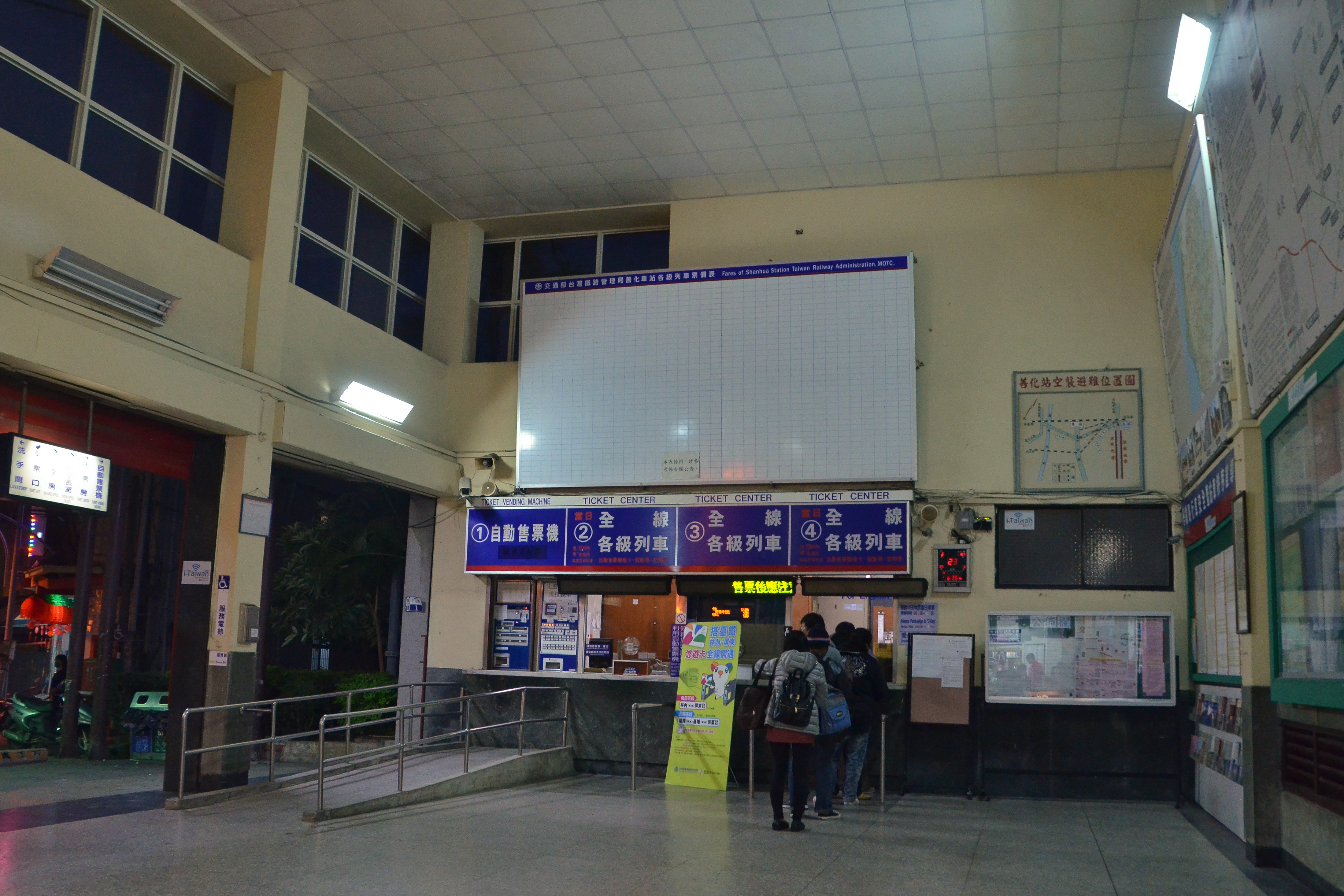 Ticket hall of the Shanhua Station, Taiwan Railways Administration at night.